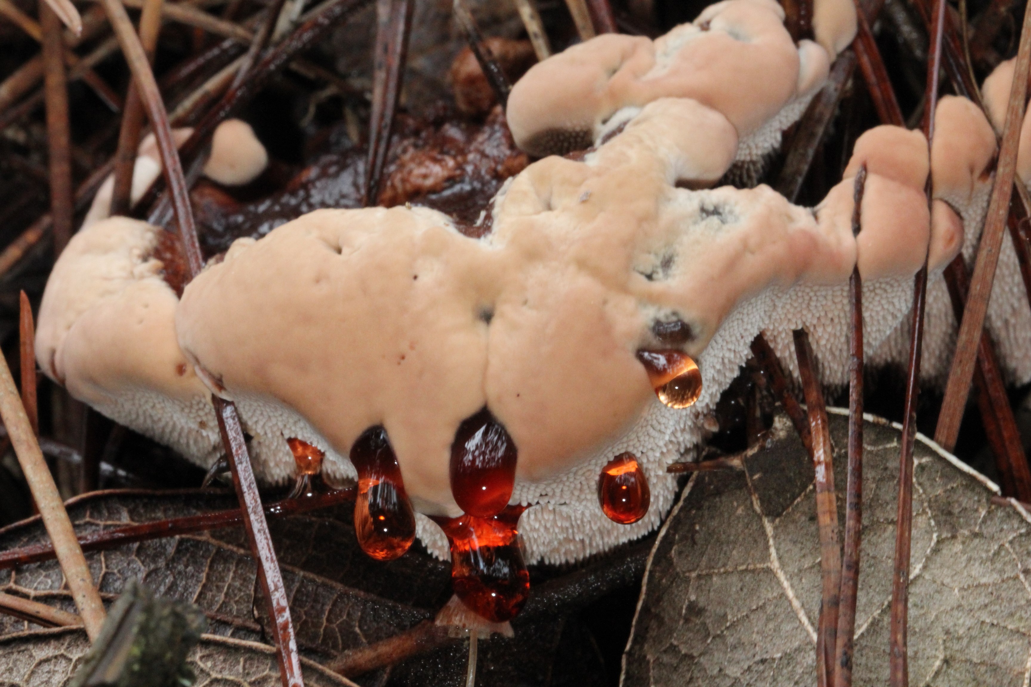 A fruit body of the stipitate hydnoid fungus Hydnellum ferrugineum. Specimen photographed in Perote, Veracruz, Mexico.